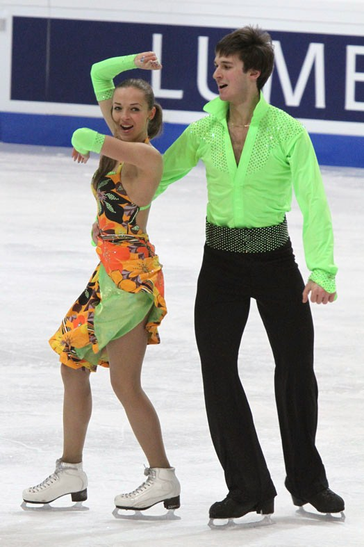 Nadezhda Frolenkova and Mikhail Kasalo at the 2011 European Figure Skating Championships